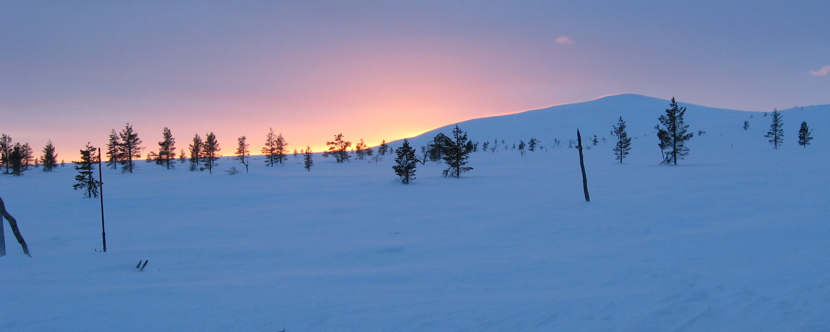 The sunset over the fell Outtakka, Pallas-Yllästunturi National Park, Enontekiö, Finland. Photo taken fom the Pahakuru Hut. Panorama.